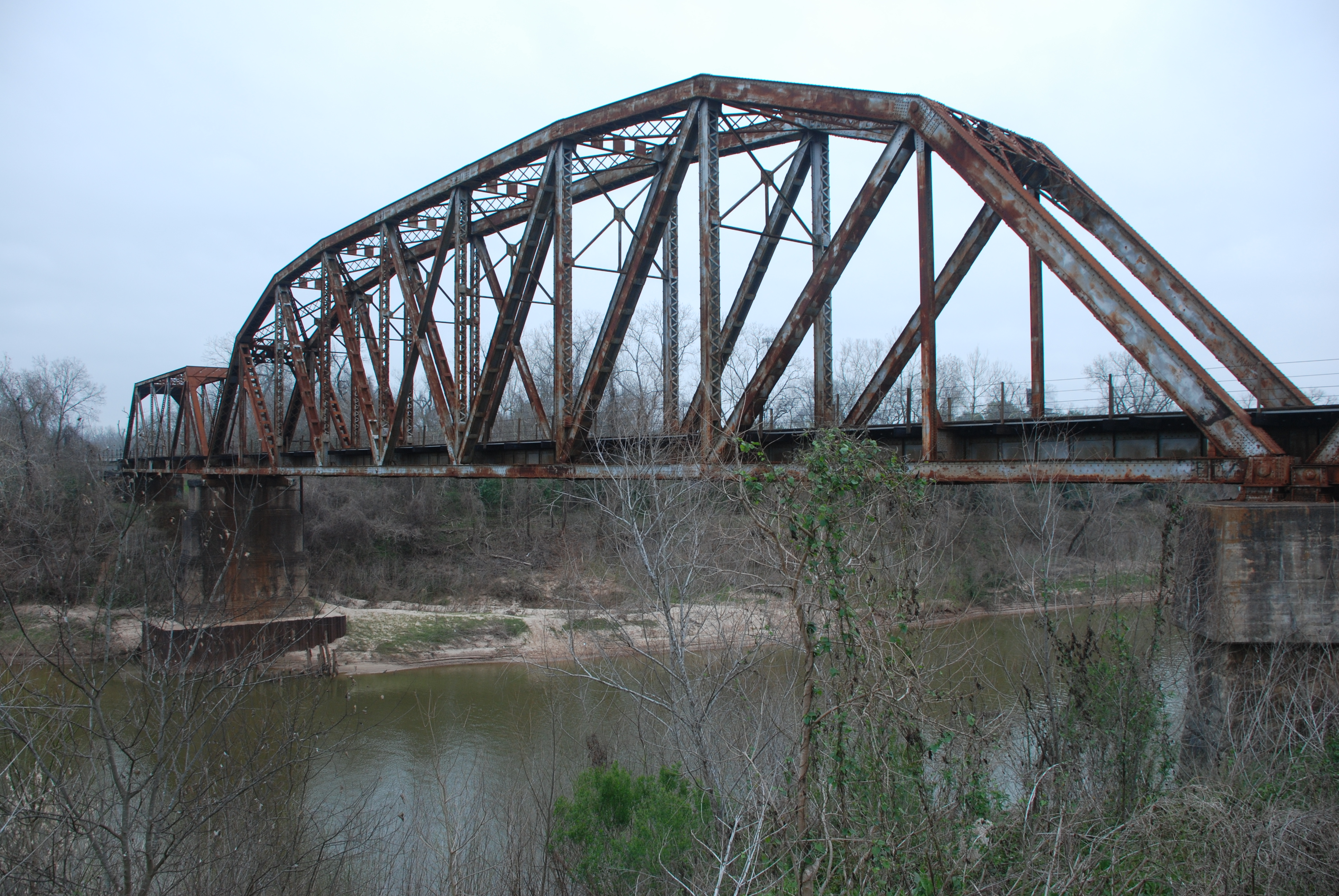 Old railway bridge over the Brazos River (Richmond, Texas, USA)